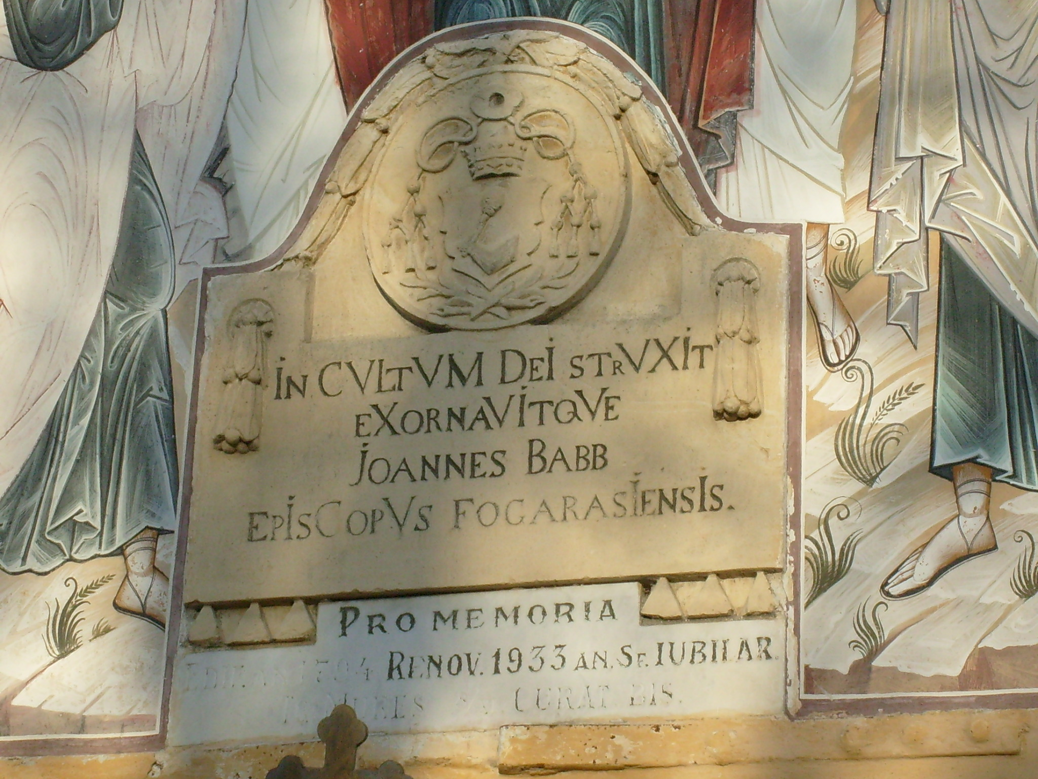 Bishop Bobs coat of arms.